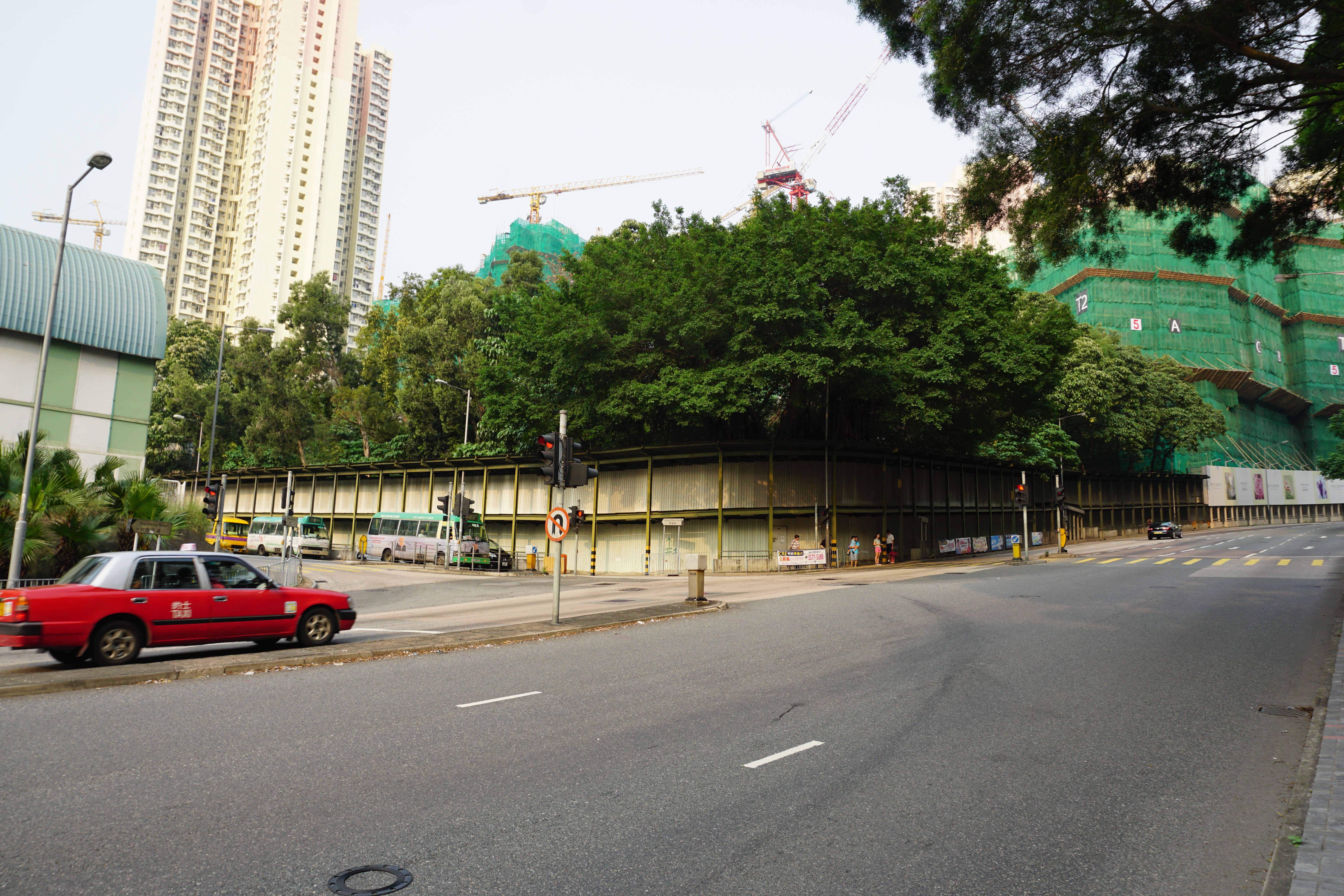 1921 firecracker factory explosion site that killed 32 and injured 56 in Ho Man Tin, Hong Kong.